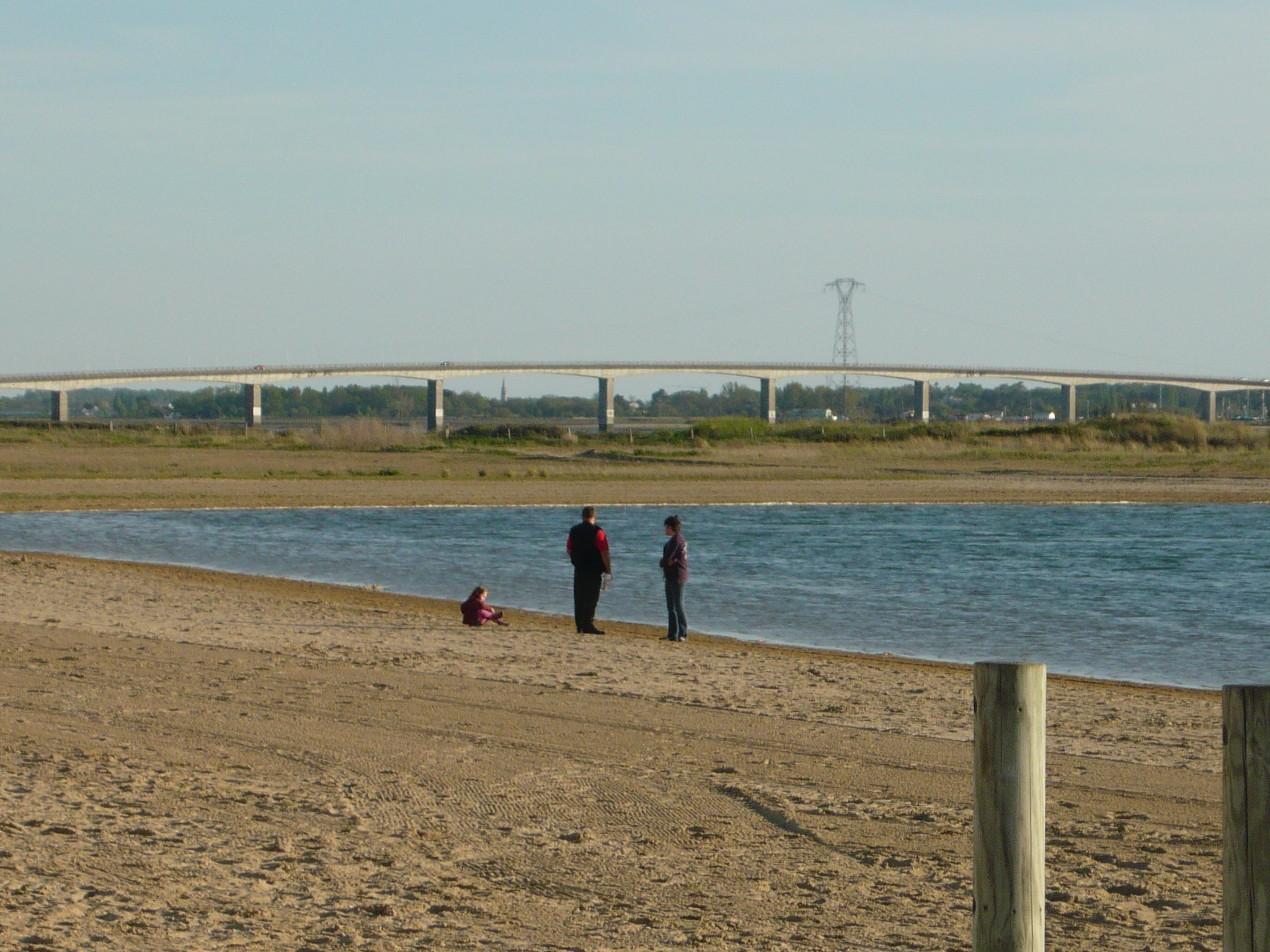 Le viaduc de la Seudre vu depuis la plage de Marennes un soir de septembre 2009.